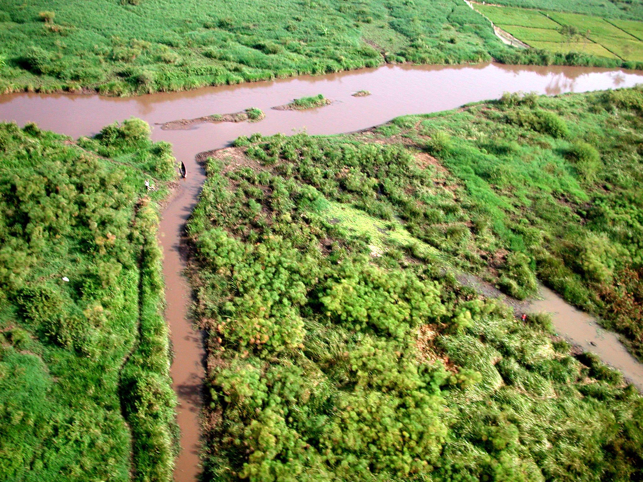 Nyando confluence fixed, Kenya.